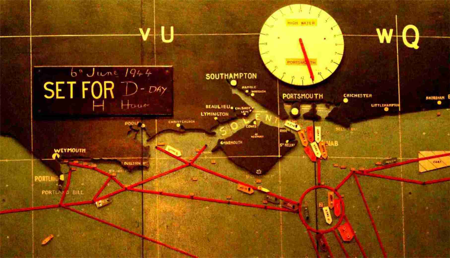 Southwick house - D day departures 1944-6-6